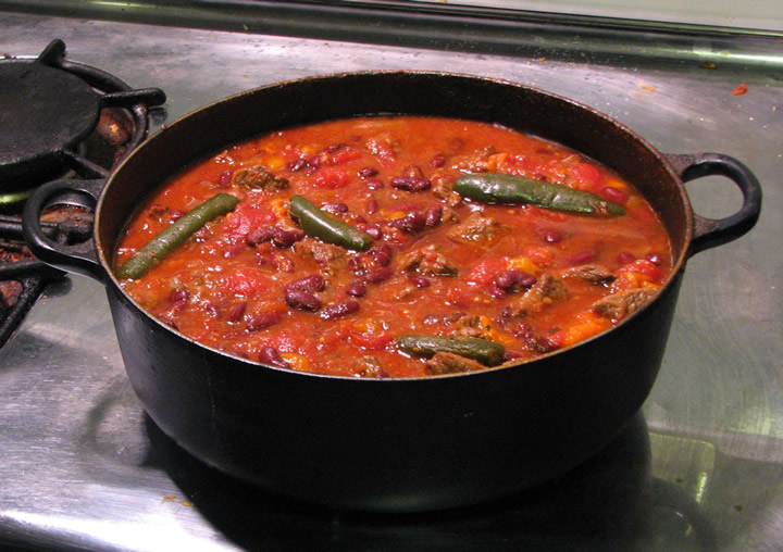 pot of chili